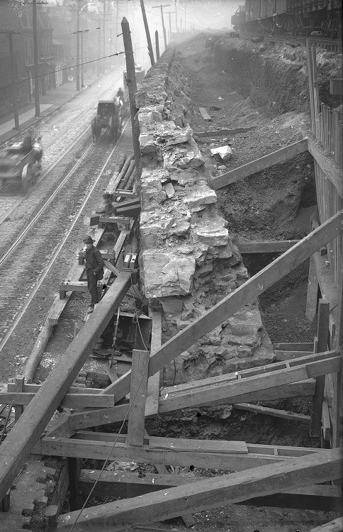 Workers in replacement of retaining wall, near Hazelwood, Pittsburgh, Pennsylvania, 1906